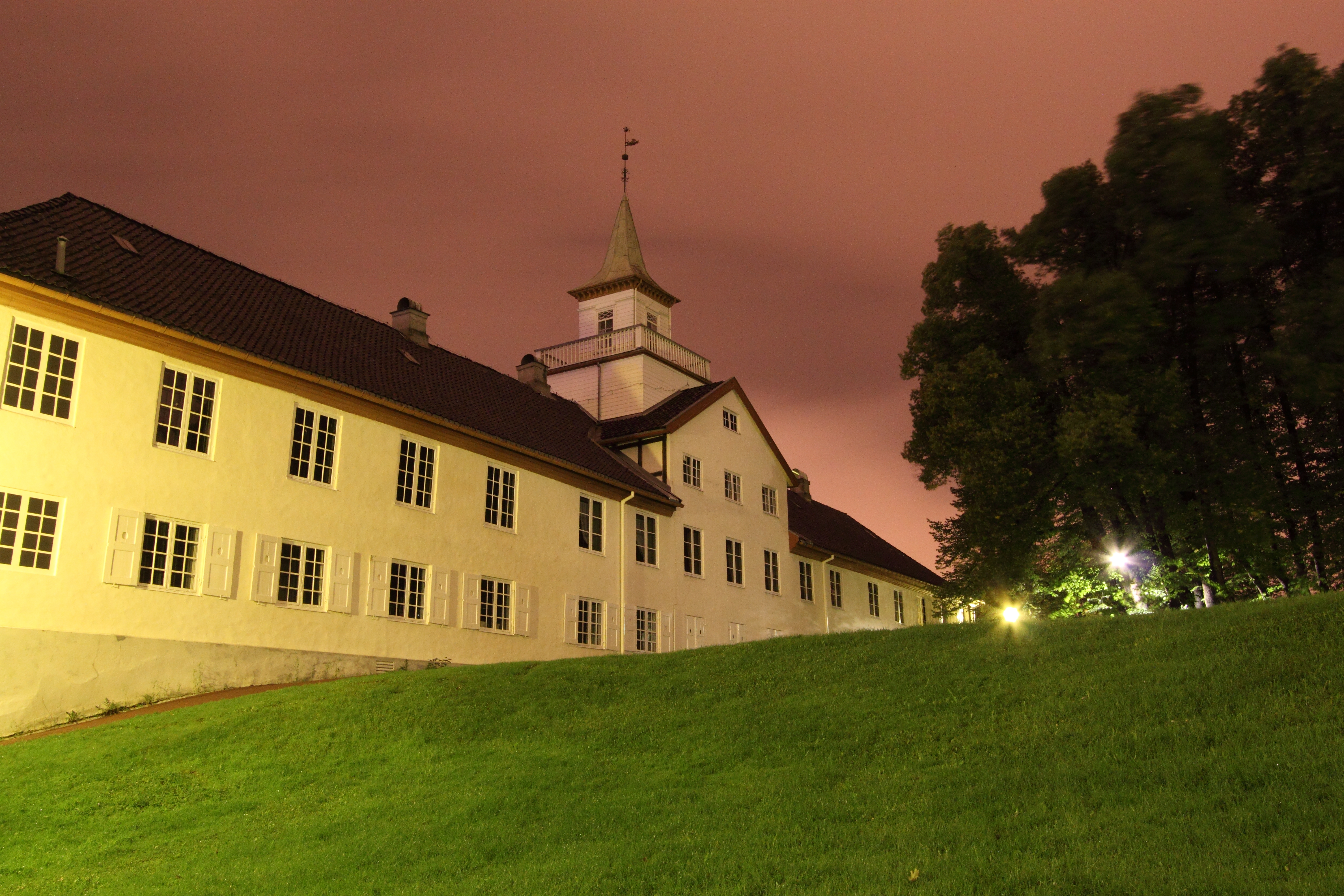 Frogner Hovedgård as seen from behind in the night.